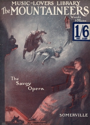 Cover to piano/vocal selections from The Mountaineers - 1909